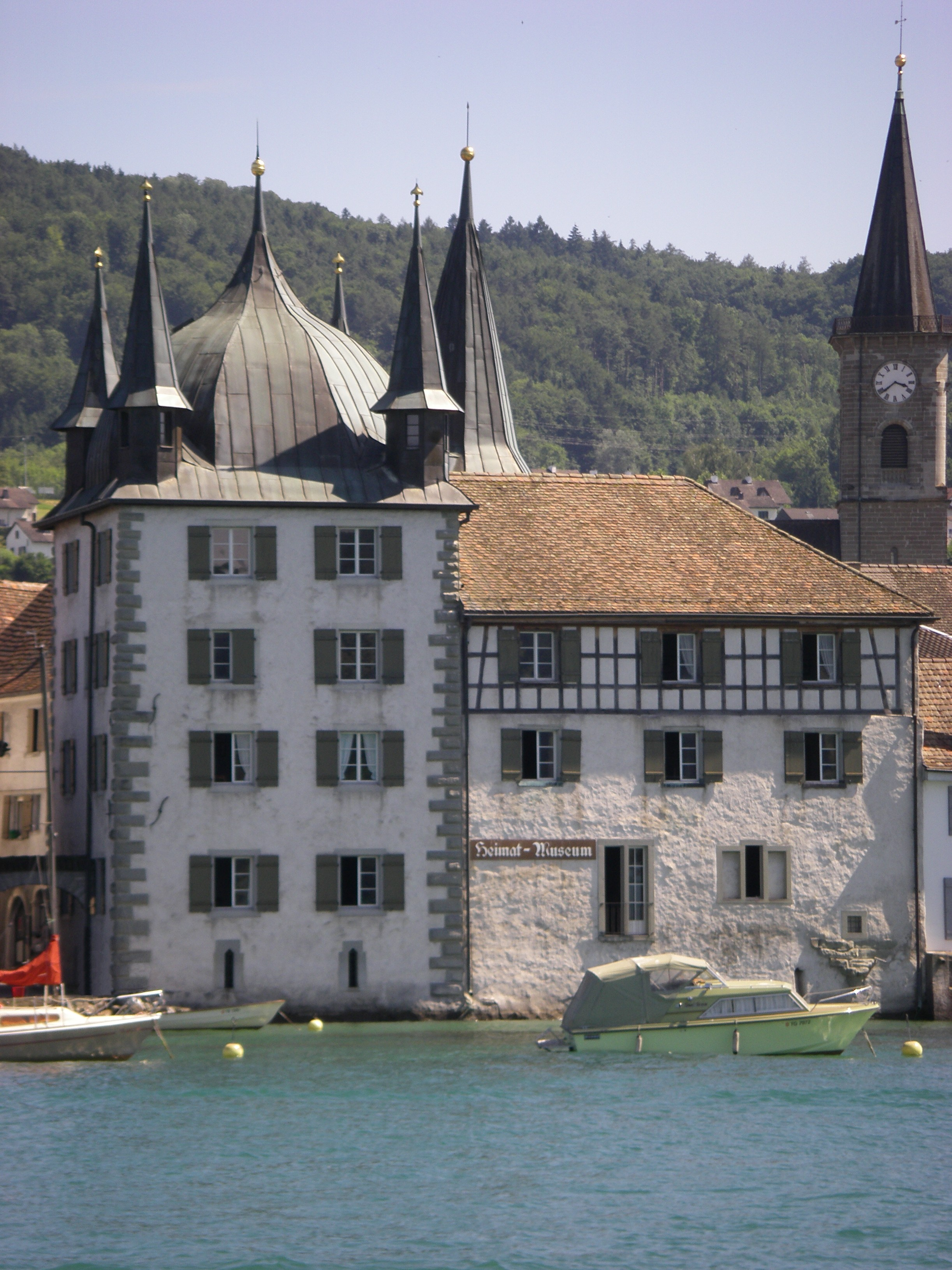 Lakeside view of the "Turmhof" building in Steckborn (Switzerland) on the Untersee, a part of Lake Constance. Built c. 1282 by Albrecht von Ramstein, abbot of the Benedictine monastery on Reichenau Island.